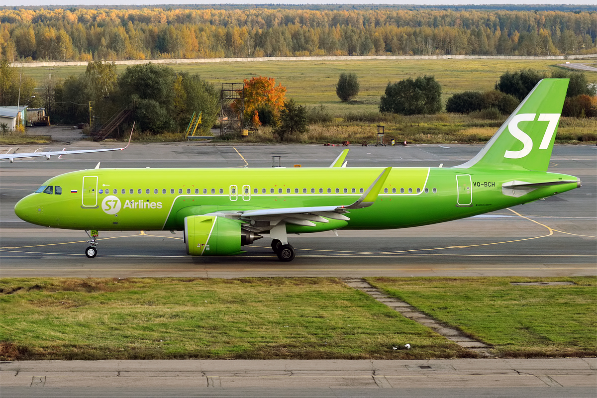 S7 Airlines, VQ-BCH, Airbus A320-271N